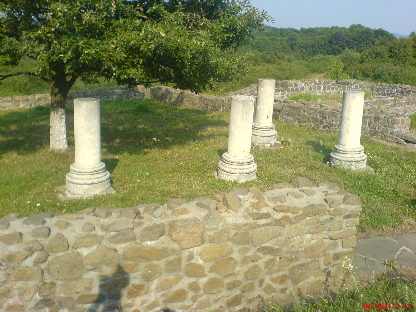 Temple to Jupiter Optimus Maximus Dolichenus in Porolissum (8 km from Zalău, Romania).